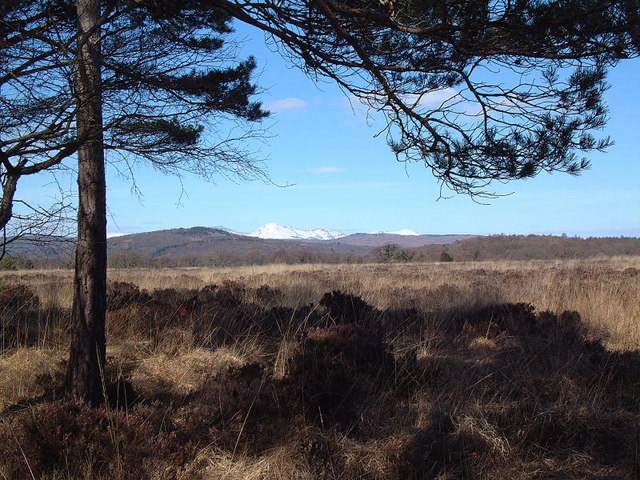 Fish House Moss. An ombrotrophic peat bog around 7m deep covered by sphagnum moss, heathers and reed grass. Conditions are very wet and acidic and only specialised plants survive. In these anaerobic conditions decomposition is very slow. Jump up and down here and watch the ripples move across the bog as if it was a giant waterbed! Ancient civilizations considered these places sacred because of their preserving properties and bodies were sometimes buried with hordes of treasure in sites like this! View is approx NW towards Coniston Old Man covered in snow in the distance.